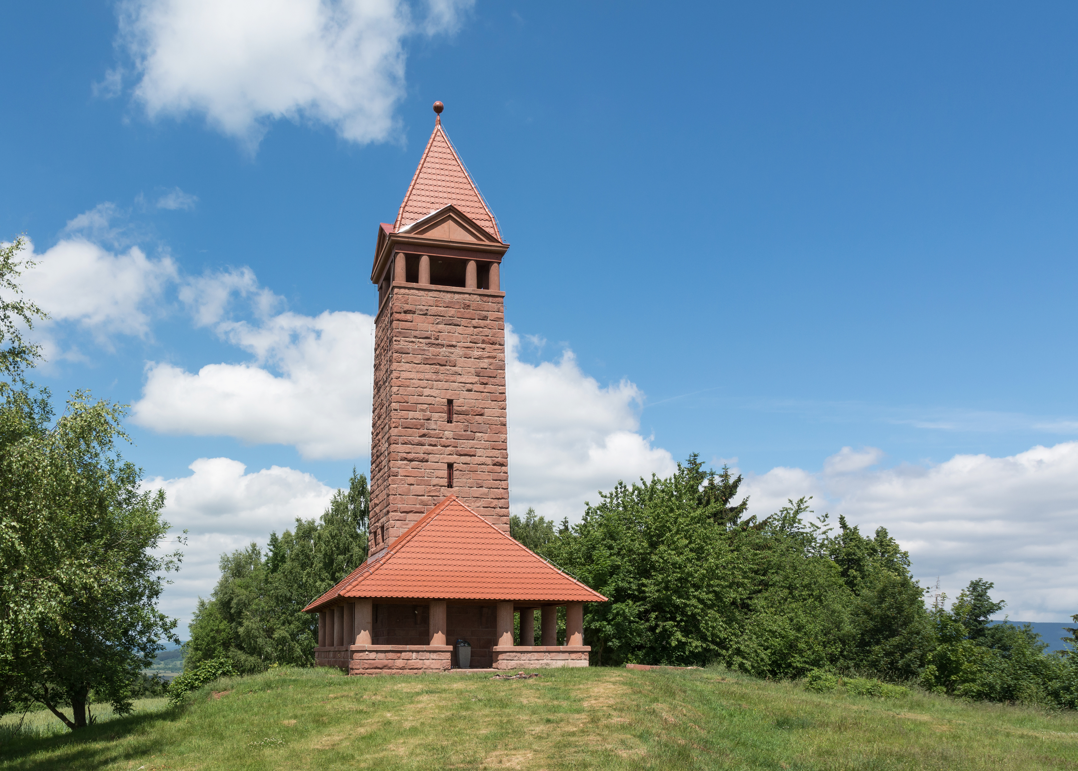 Observation tower on St. Anna’s Mountain in Nowa Ruda Ta fotografia przedstawia zabytek wpisany do rejestru zabytków pod numerem ID 735402